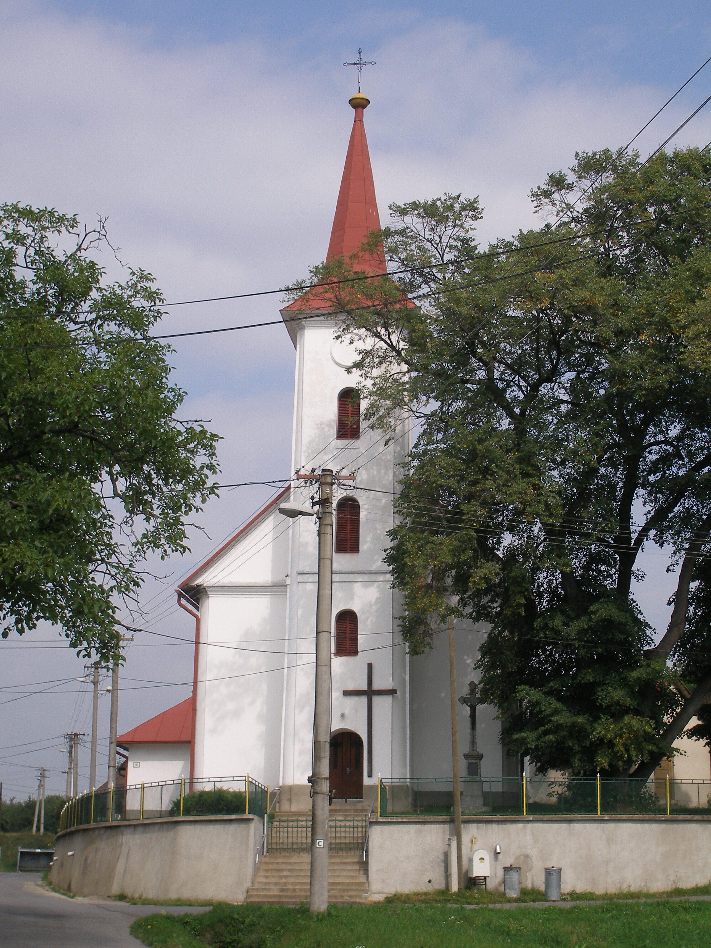 Šarišská obec Jarovnice This medium shows the protected monument with the number 708-11084/0 in the Slovak Republic.